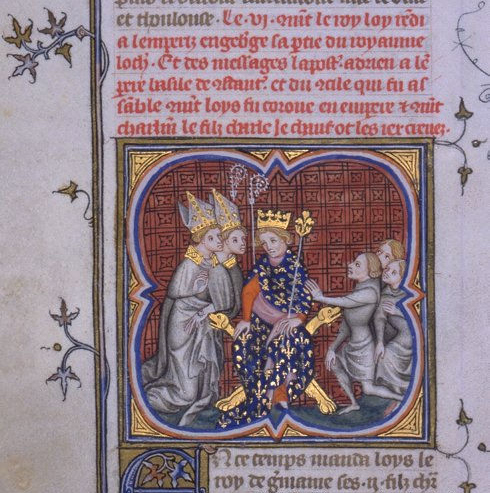 3 sons of Louis the German shown in mediaeval manuscript.